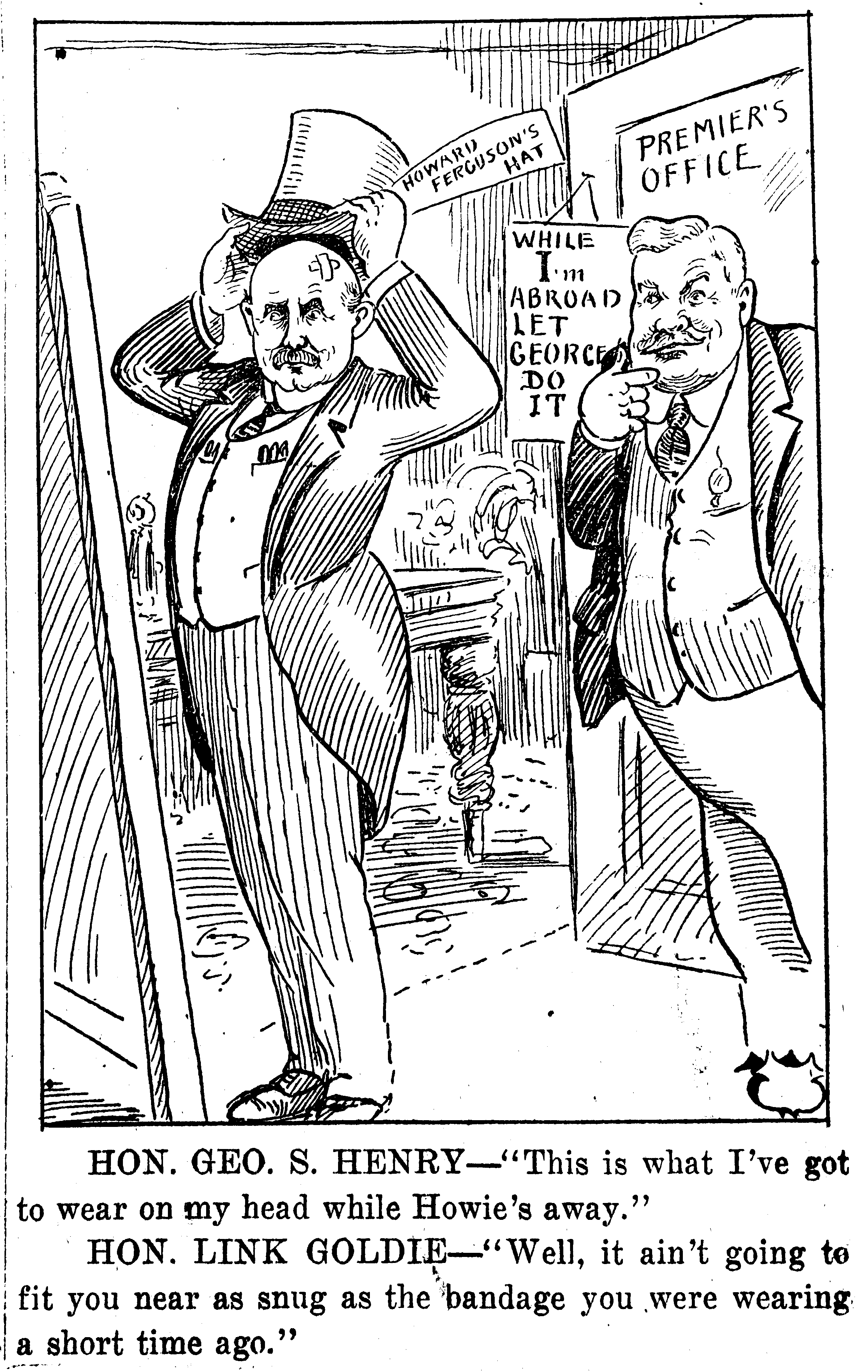 Political cartoon depicting Ontario MPP, and future premier, George Henry and MPP Lincoln Goldie